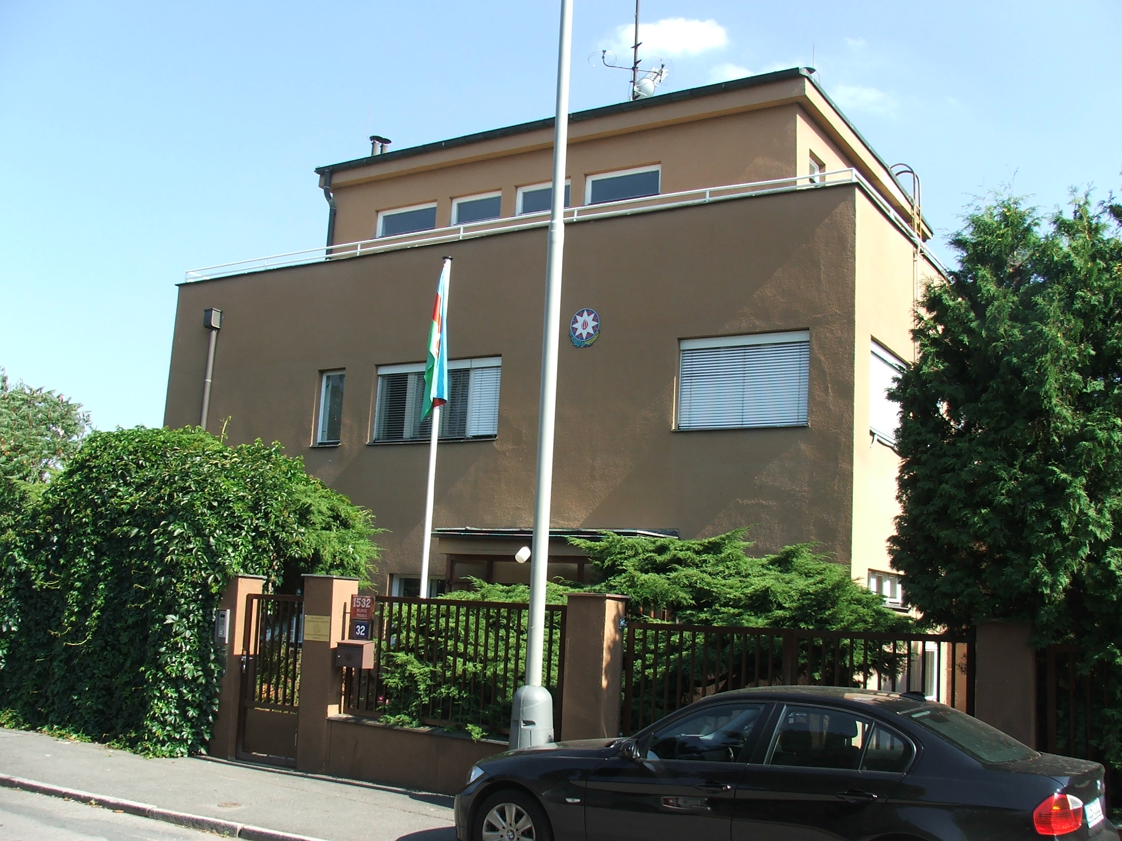 Embassy of Azerbaijan in 2008 in Prague-Dejvice, Czech Republic. Na Míčánce 1532/32.